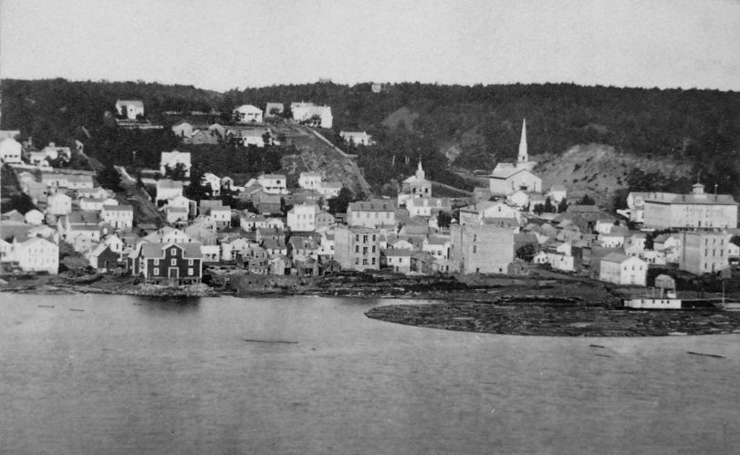 Panorama of Stillwater, MN circa 1860s